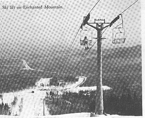 View from Enchanted Mountain Ski Area chairlift